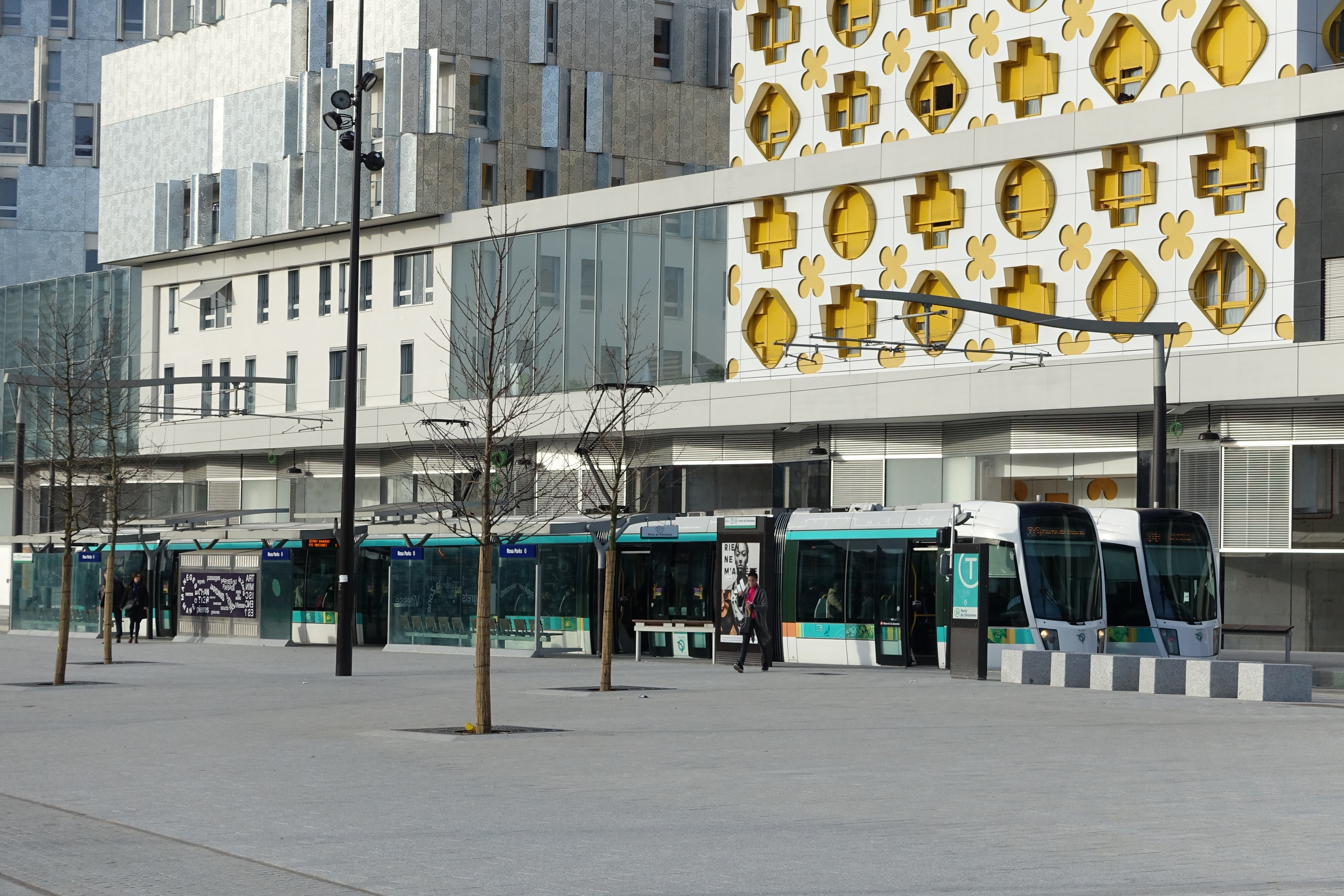 Rosa Parks tramway station, Paris